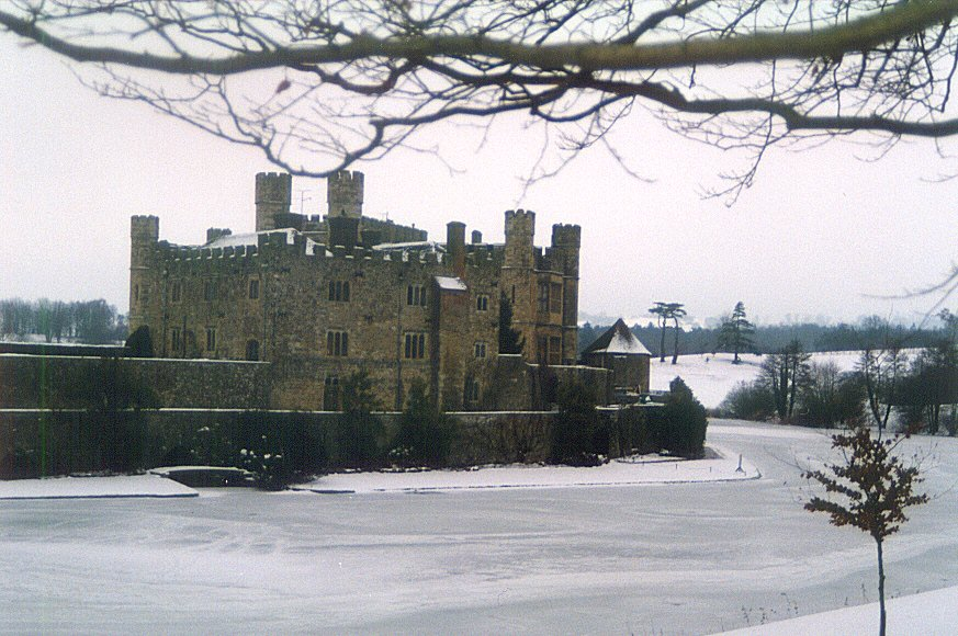 Leeds Castle in Winter - Dec 1996 Photo Cas Liber